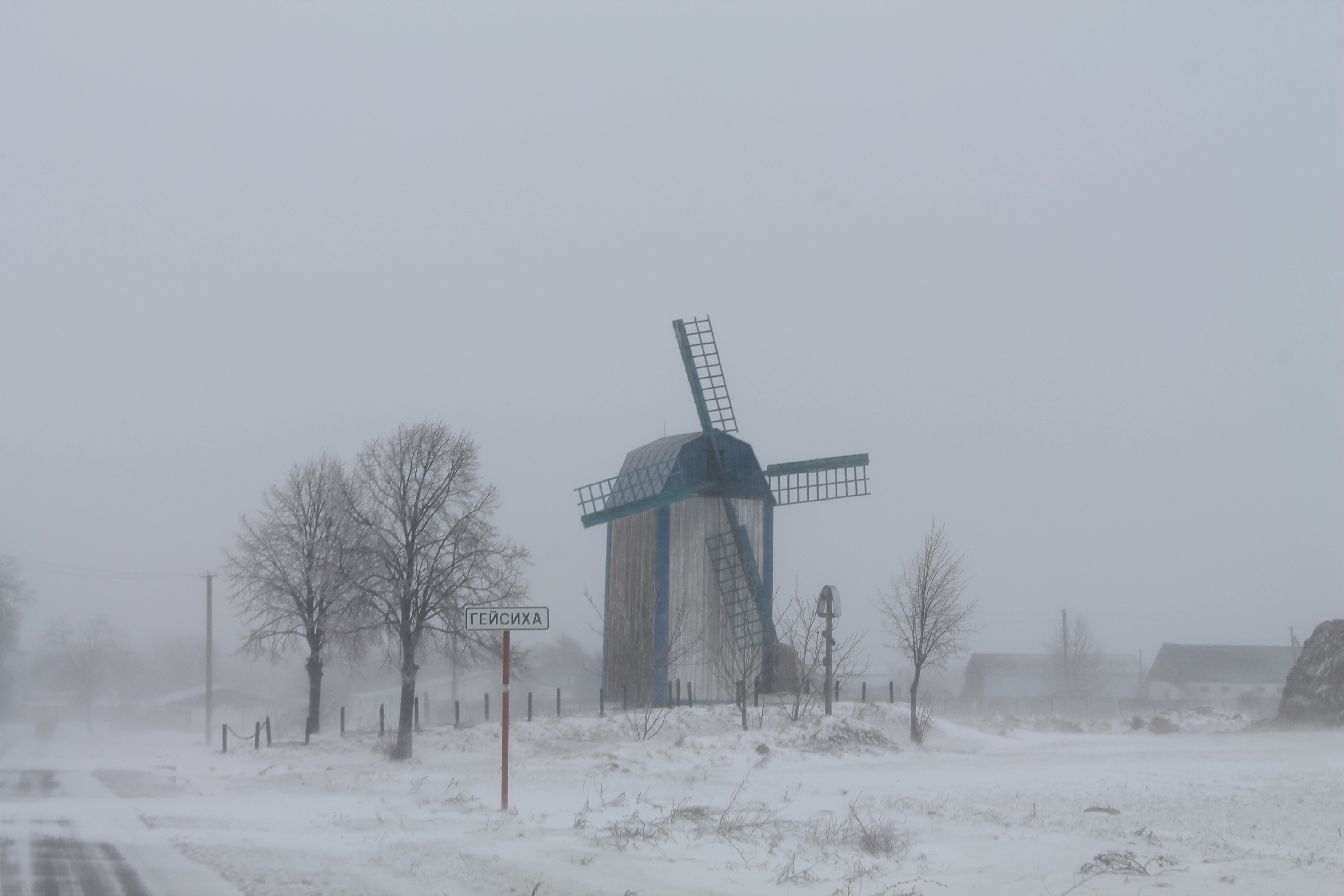 Wooden Windmill, Heisykha, Stavyshche Raion, Kyiv Oblast